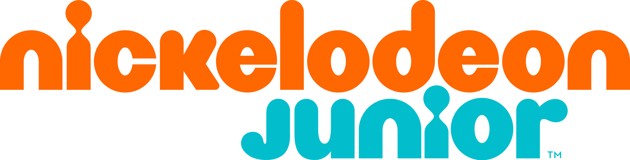 Logo for the French channel.